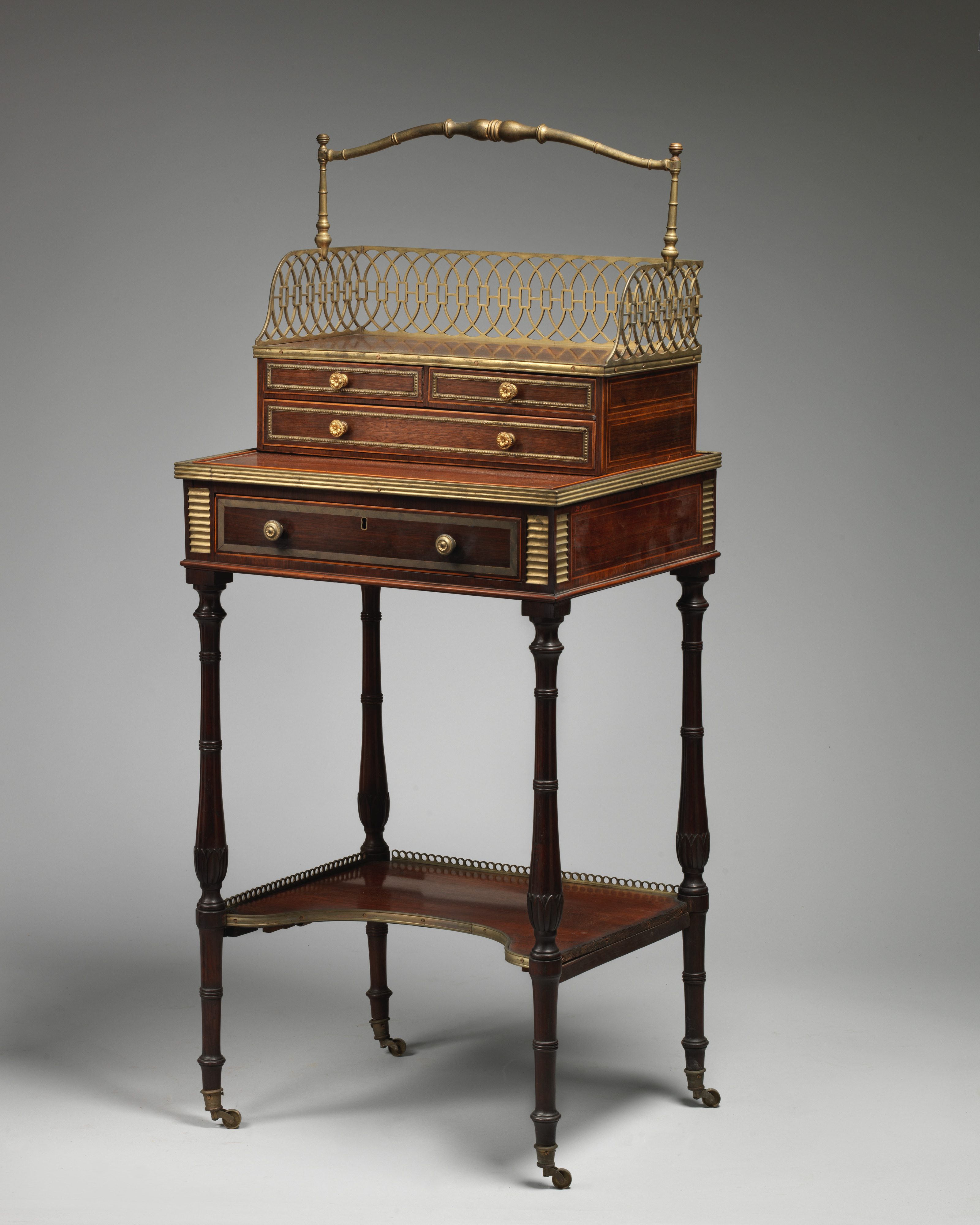 British; Table with book carrier; Woodwork-Furniture